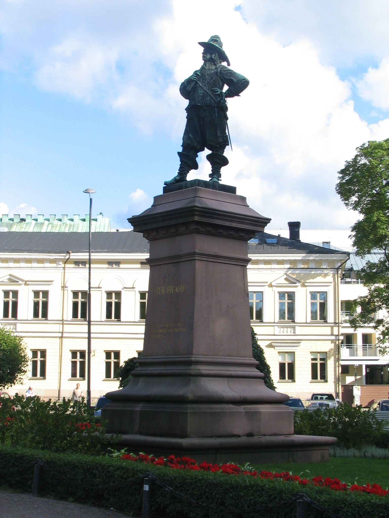 Per Brahes statue in Turku,Finland. Text in statue is: "Per Brahe - Lagh war med landett och landett med mig waal tillfreds."